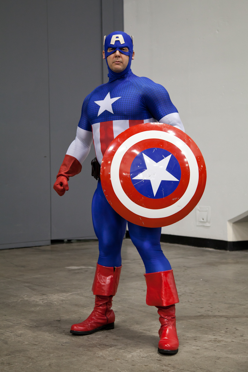 Captain America cosplay WonderCon 2011 San Francisco, CA